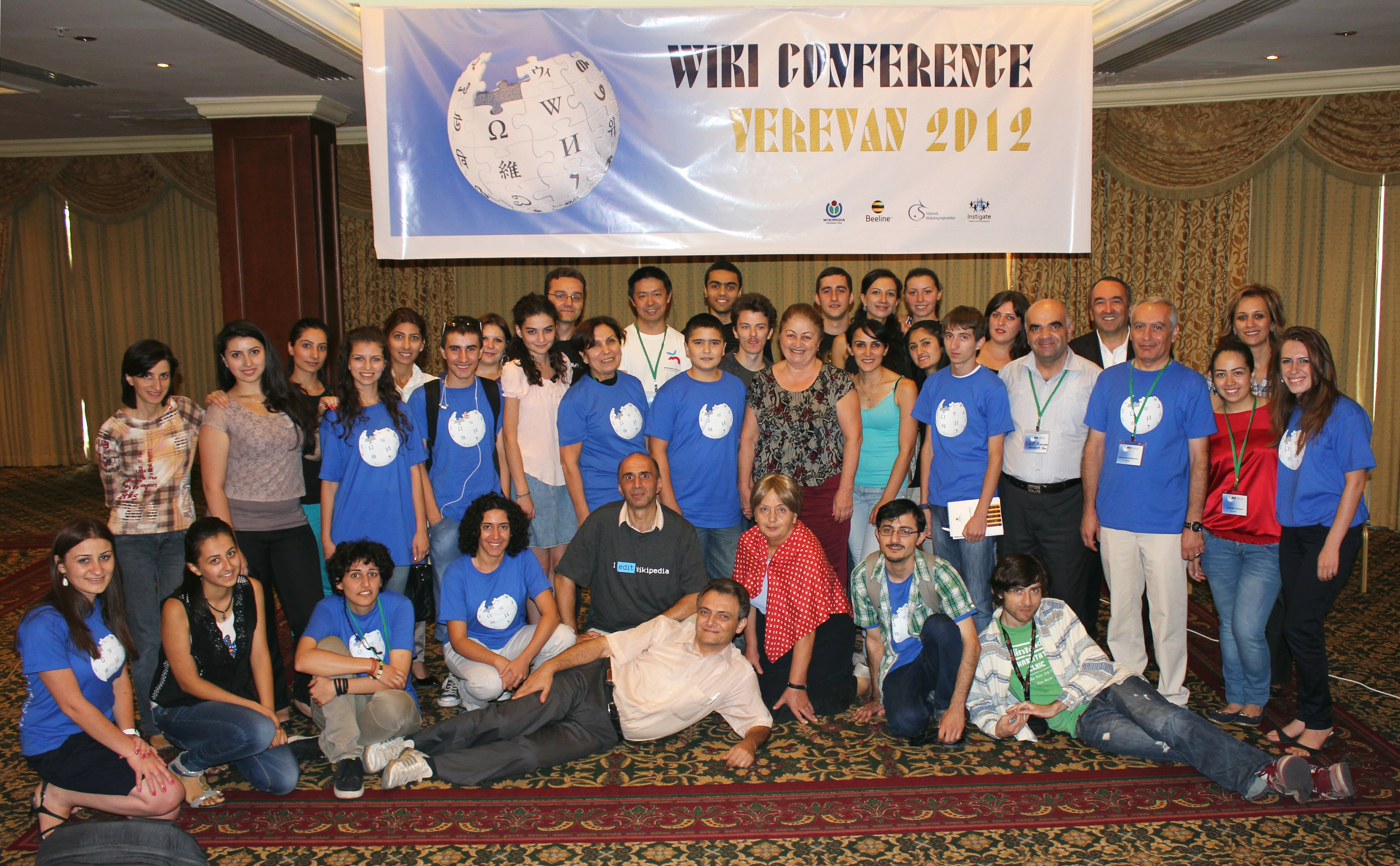 WikiConference_Yerevan_2012